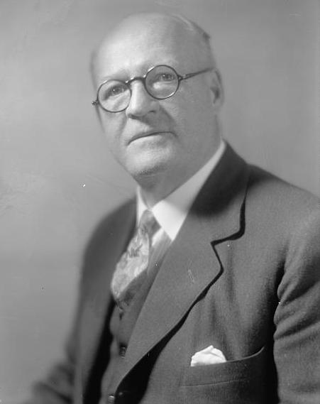 Frank Crowther, New York Congressman